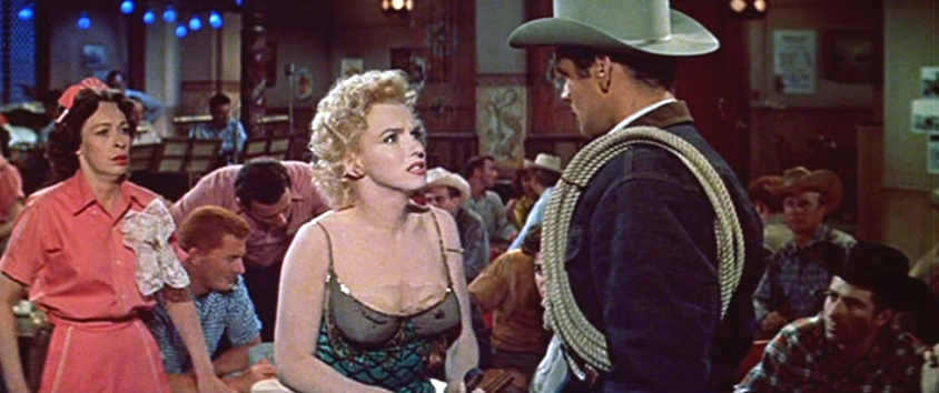 Screenshot of Eileen Heckart, Marilyn Monroe and Don Murray from the trailer for the film Bus Stop